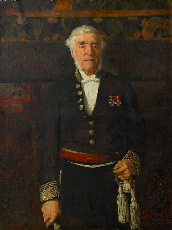 Portrait painting of Leopold Vander Kelen (1813-1895)